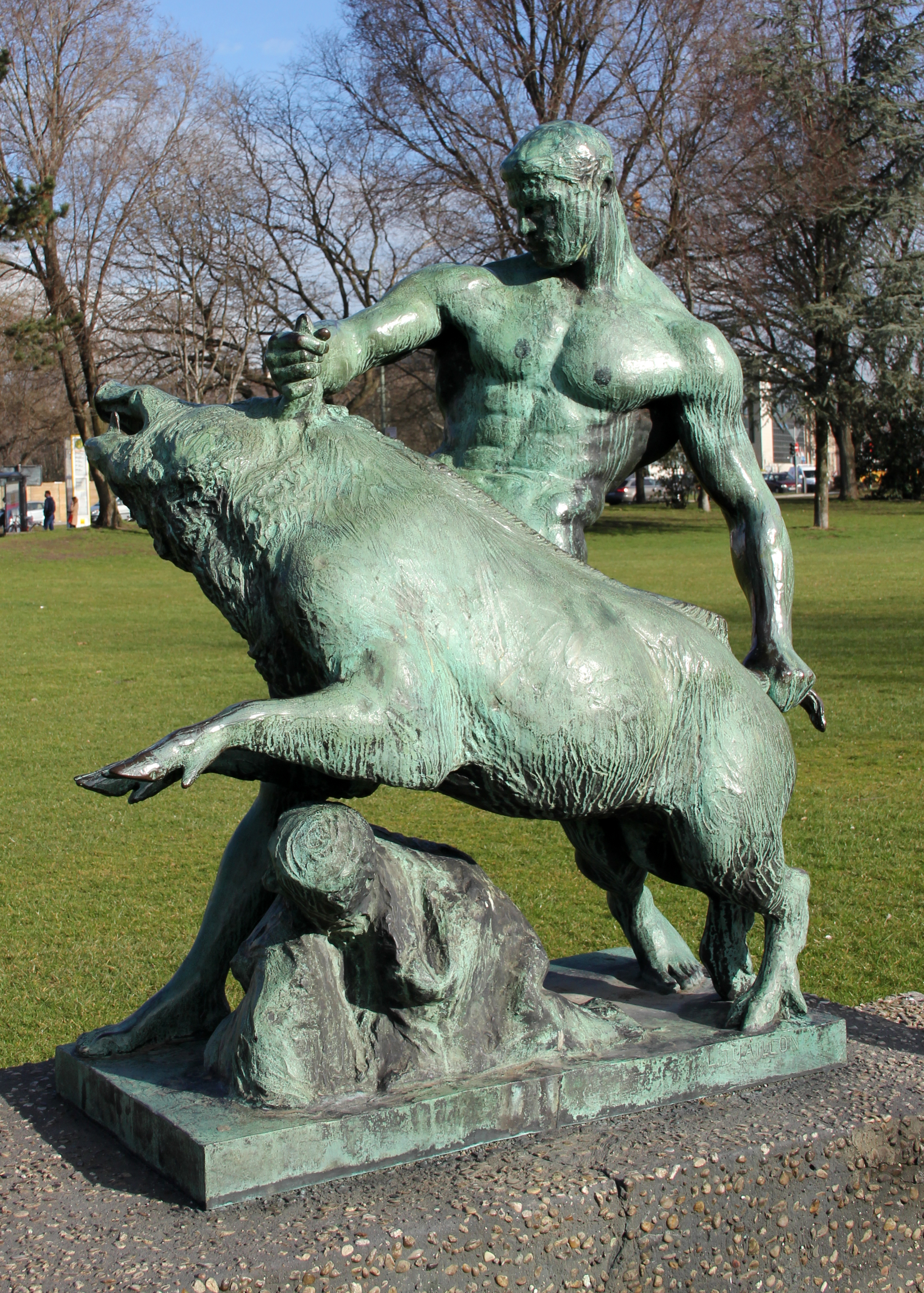 Sculpture, "Herkules und der erymantische Eber" by Louis Tuaillon, 1904, Lützowplatz, Berlin-Tiergarten, Germany